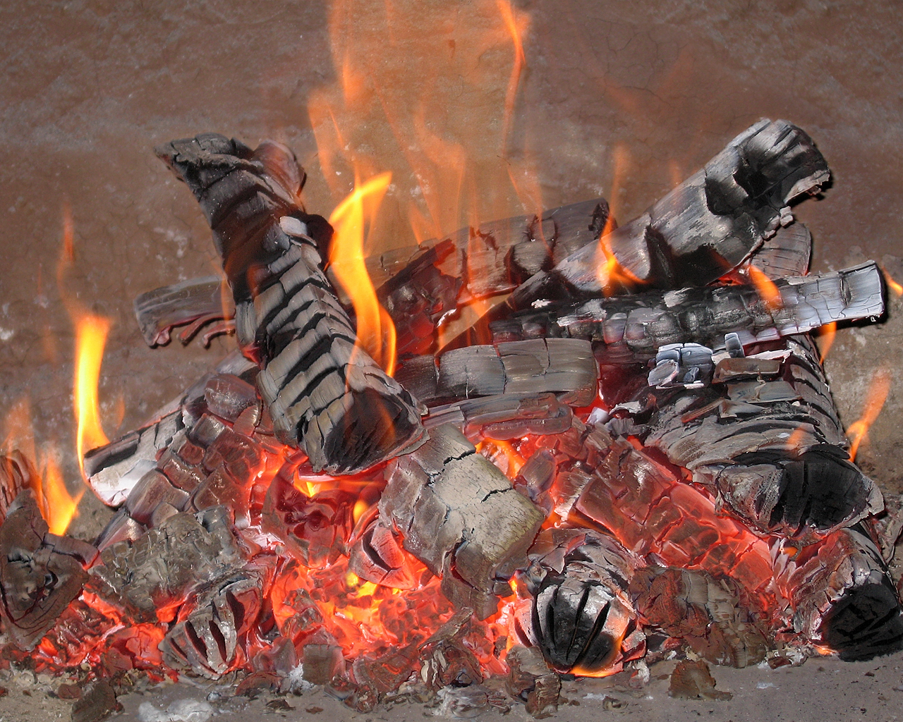 Russia, Nature of Yaroslavl Oblast